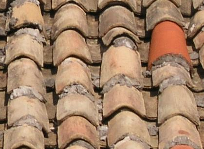 Tiles,rural roof,Tamil Nadu